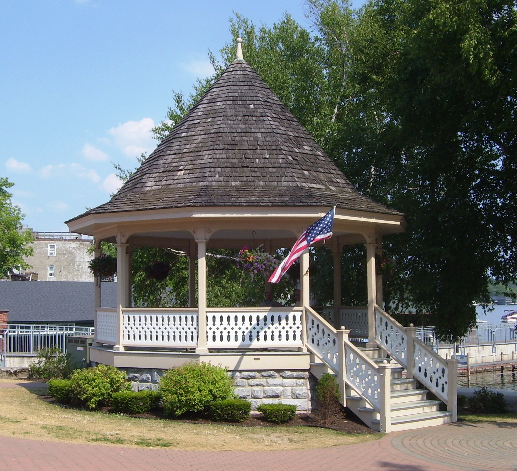 The gazebo in Clift Park at the head of Skaneateles Lake in Skaneateles, New York.